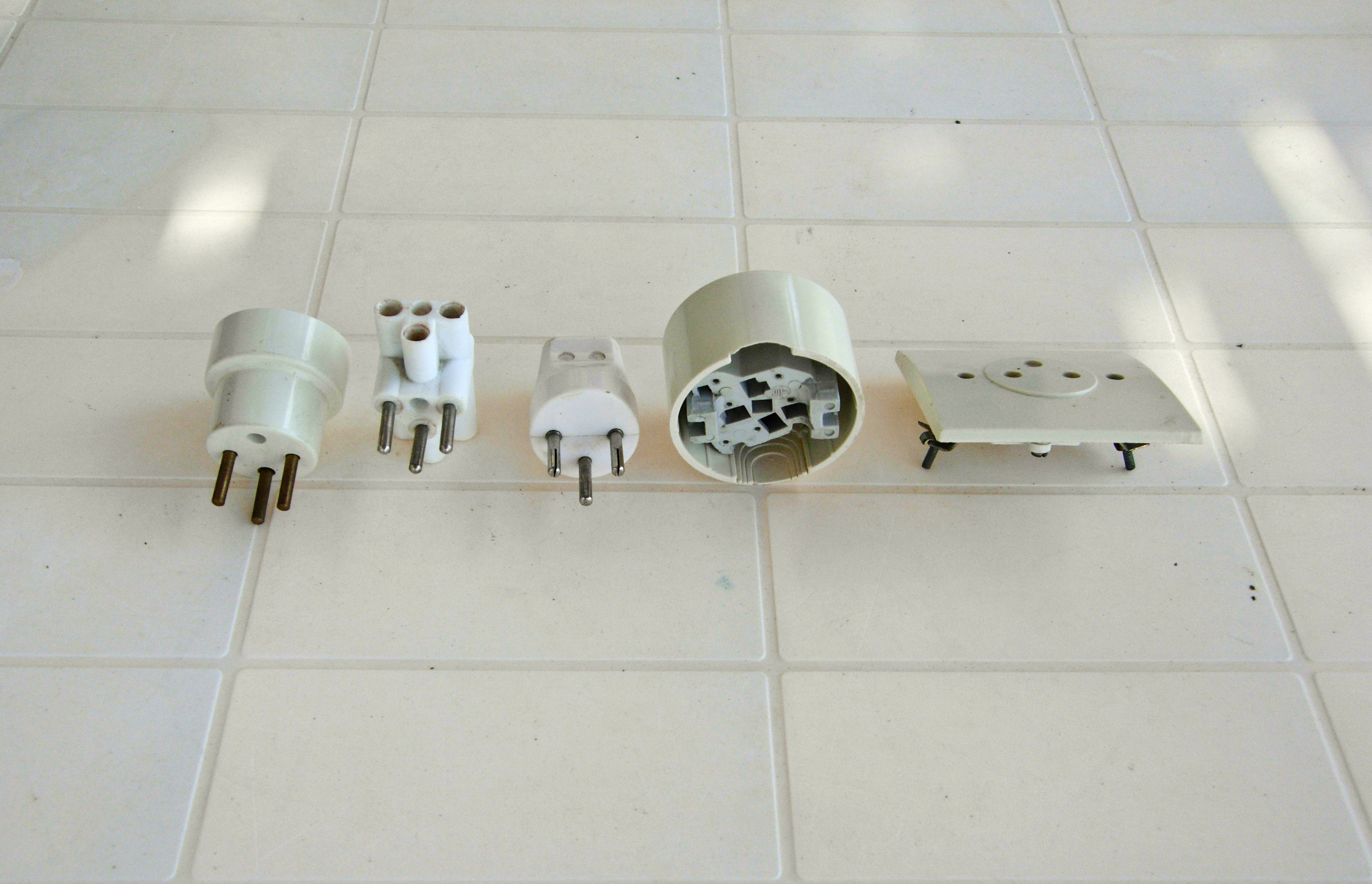 greek old three pin plugs called Tripoliki (τριπολικές), the old greek standard practically abandoned by 1995. Left to right, schuko adaptor, 3-way adaptor, plug, on-wall mounting socket (external), in-wall mounting socket